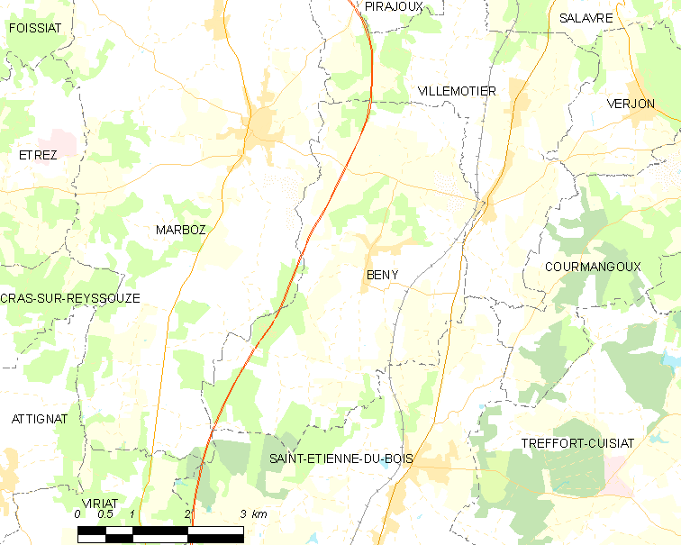 Map of French commune: Bény Map commune FR insee code 01038.png